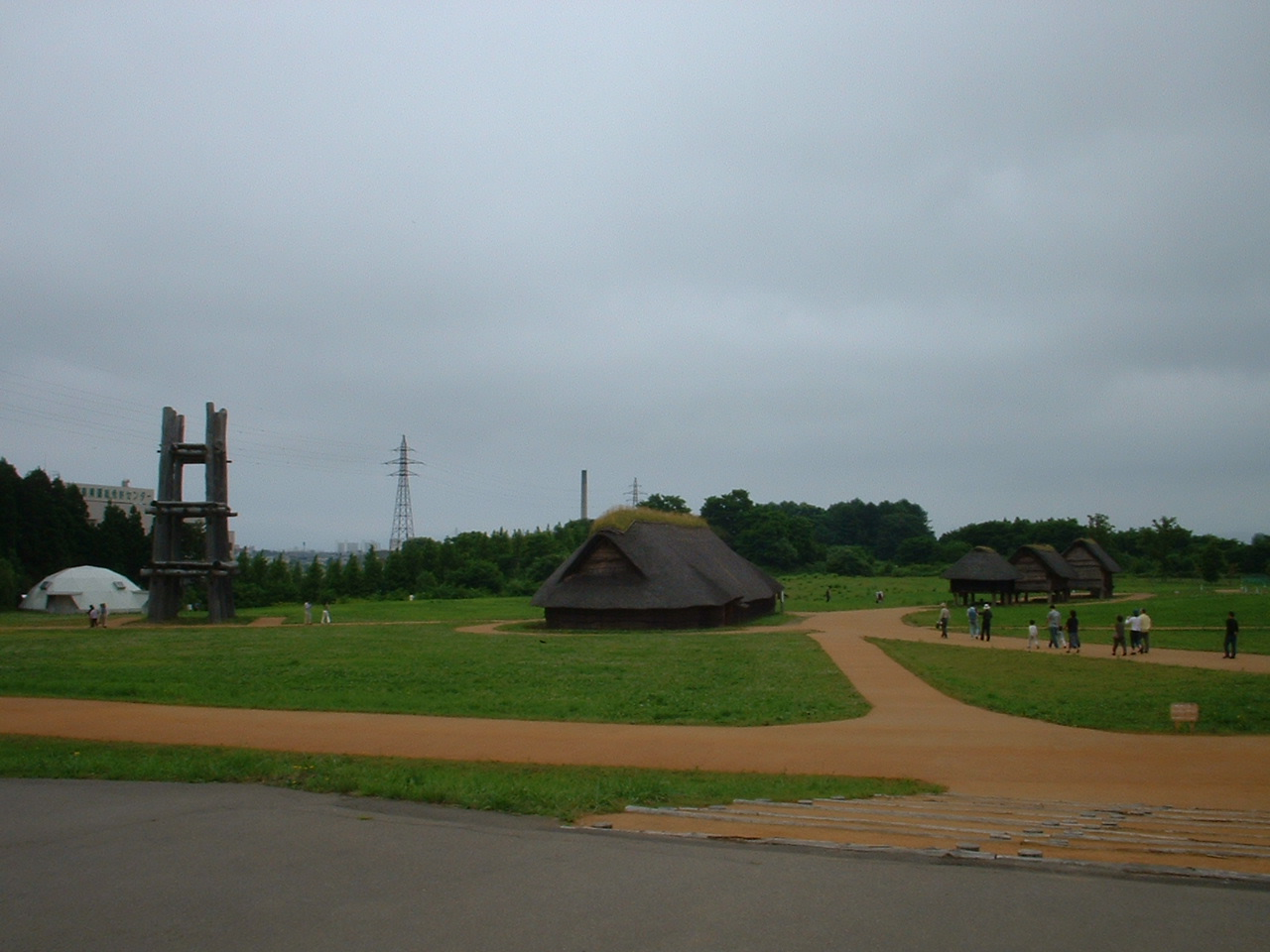 Image of the Sannai-Maruyama site in Aomori, Aomori Prefecture, Japan. Buildings and structures are reconstructions. The modern-looking dome to the left covers authentic pillar holes. I took this photograph on July 21, 2003. This image is multi licensed under the GNU Free Documentation License and the Creative Commons Attribution-ShareAlike 2.0 license.